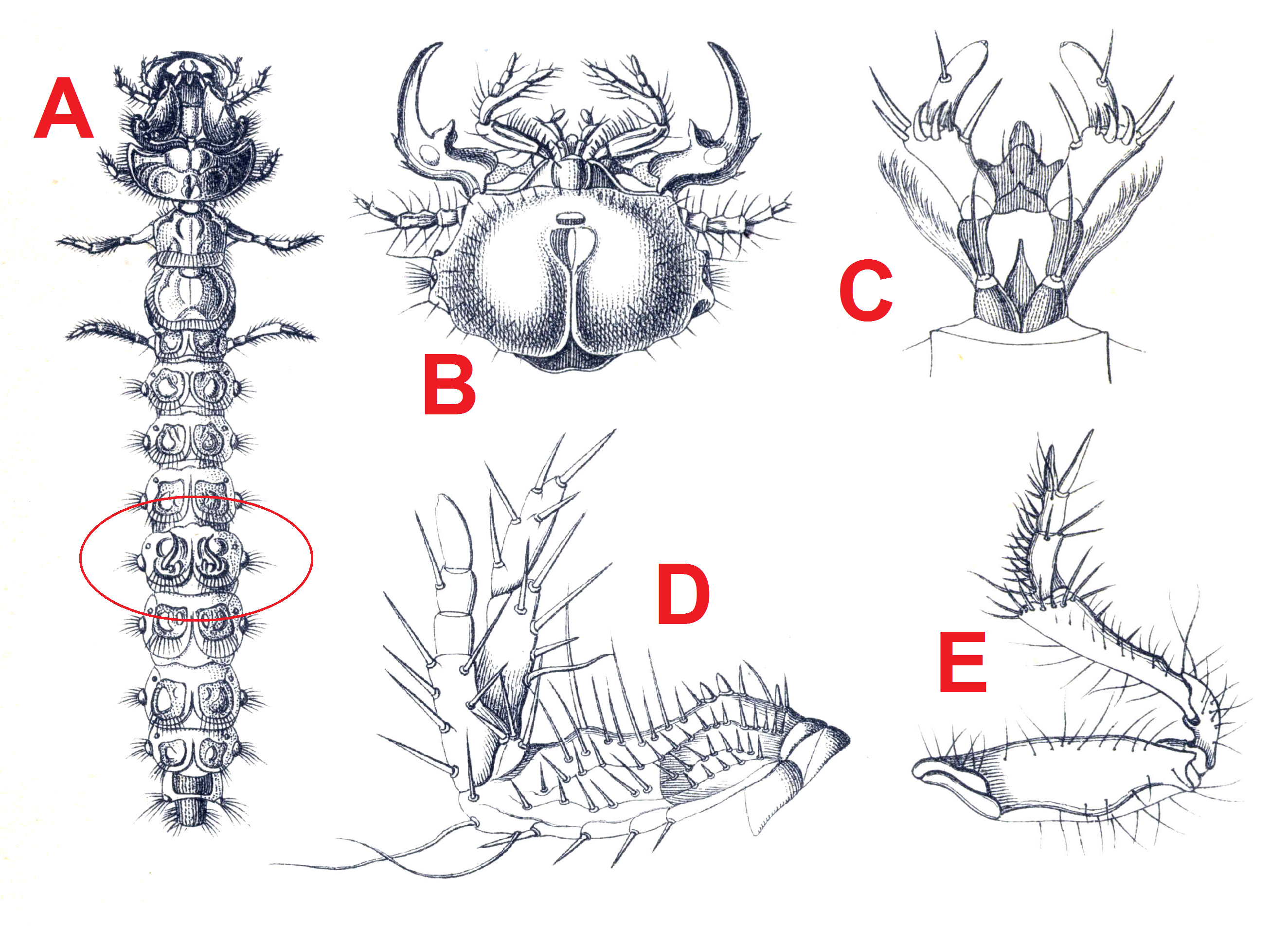 Cicindela hybrida Larval bodyparts, A = larva, circled are the median hooks, B = underside head, C = mouthparts, D = maxilla with palp, E = foreleg. From Reitter (1845-1920): "Fauna Germanica: Die Käfer des deutschen Reiches" 1909.